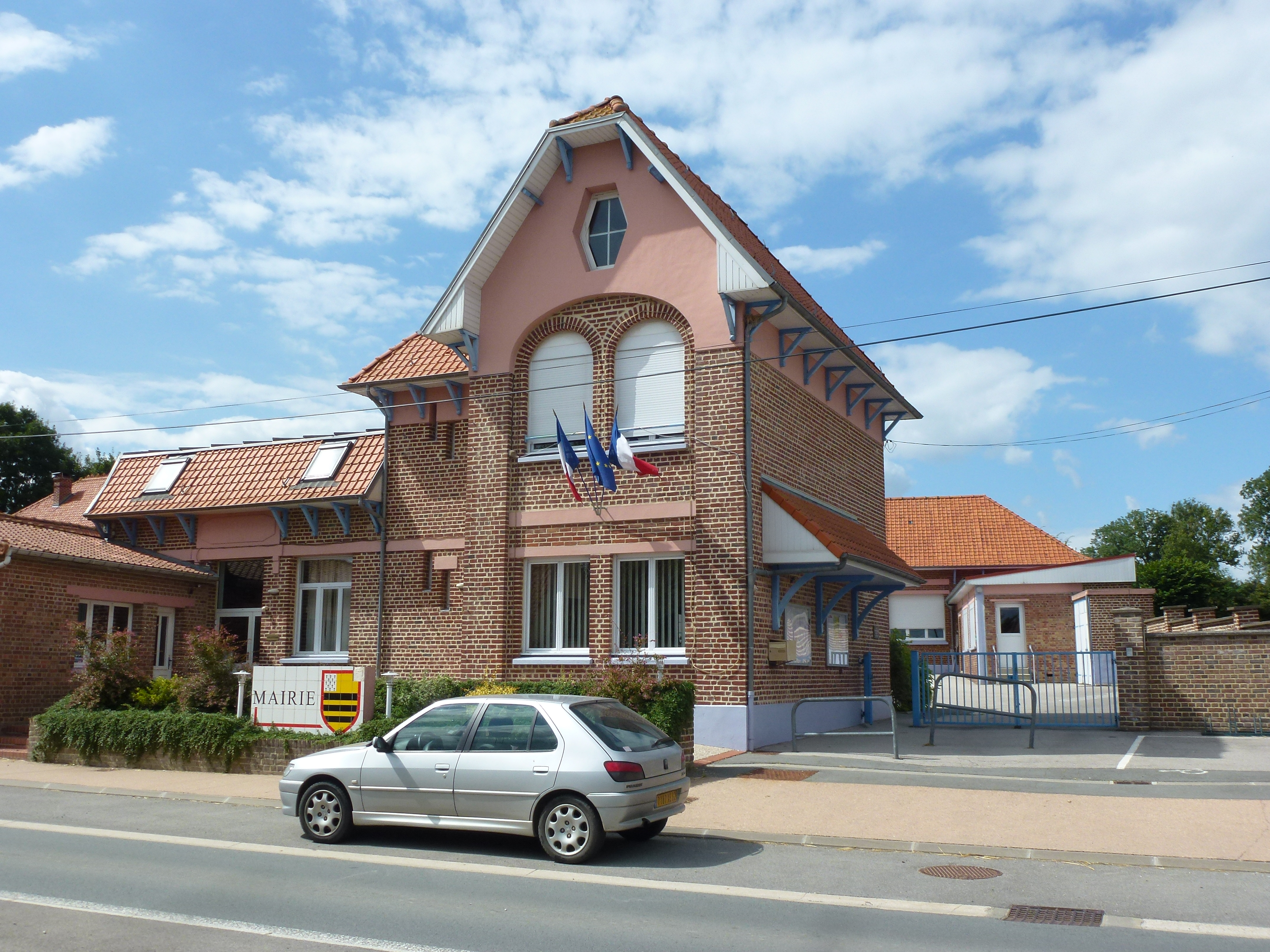 Avroult (Pas-de-Calais) mairie